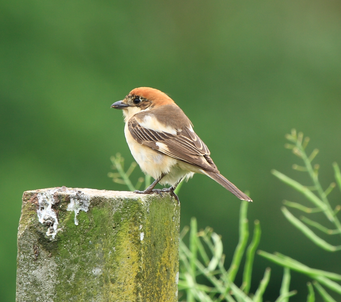 Woodchat-Shrike (Lanius senator)